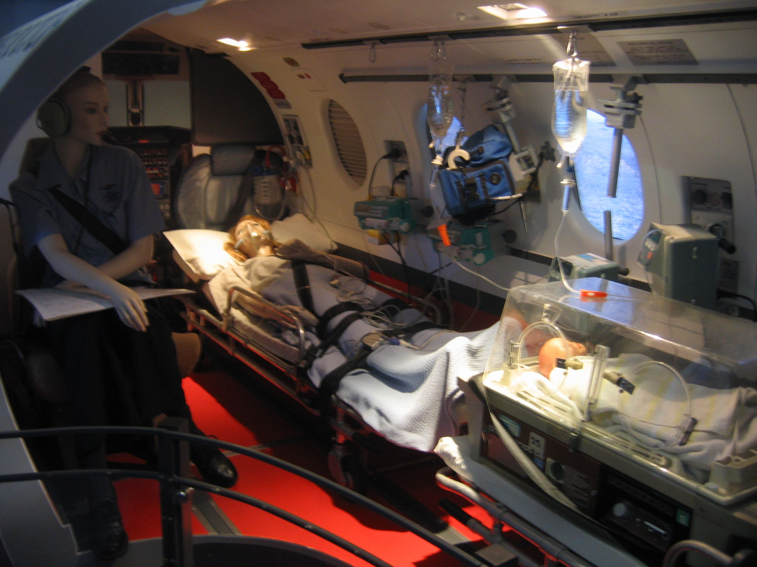 1:1 Model of the cabine of a RFDS-aircraft in RFDS-Museum, Alice Springs